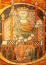 King Edward I of England.